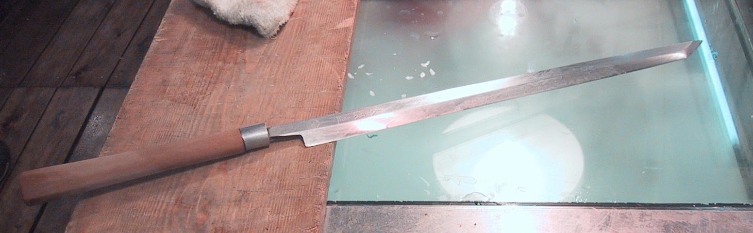 Half long blade (only 1m) for filleting Tuna This is a Hancho Hocho (Jap.: 半丁包丁), a half length knife to fillet Tuna at the Tsukiji fish market.